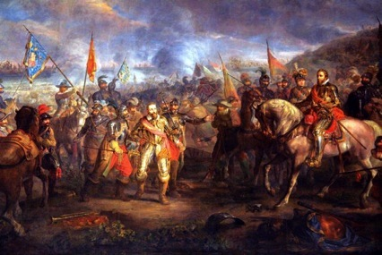 The Battle of Nieuwpoort, in the Onze-Lieve-Vrouwekerk Church in Nieuwpoort.